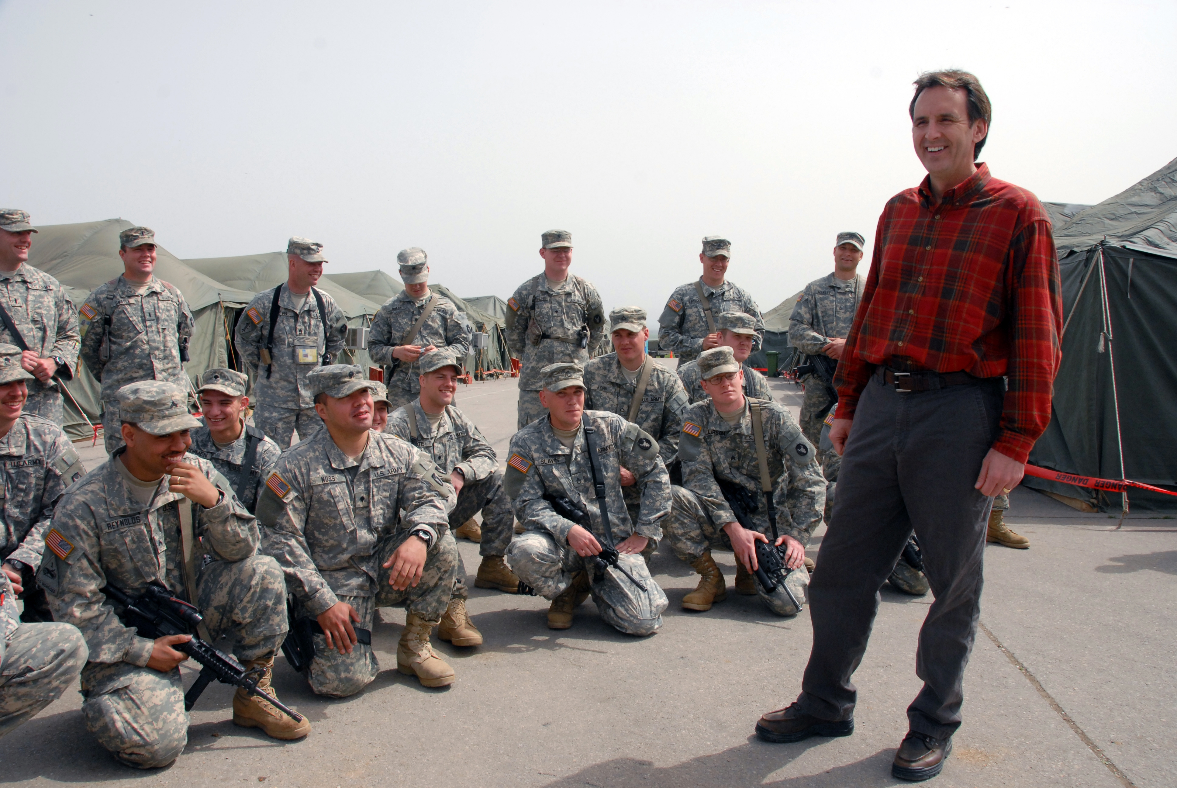 Minnesota Gov. Tim Pawlenty meets with Minnesota National Guard troops serving with the Kansas National Guard's 35th Infantry Division in Kosovo during a visit to the world's newest country on April 12, Kosovo declared independence from Serbia Feb. 17.